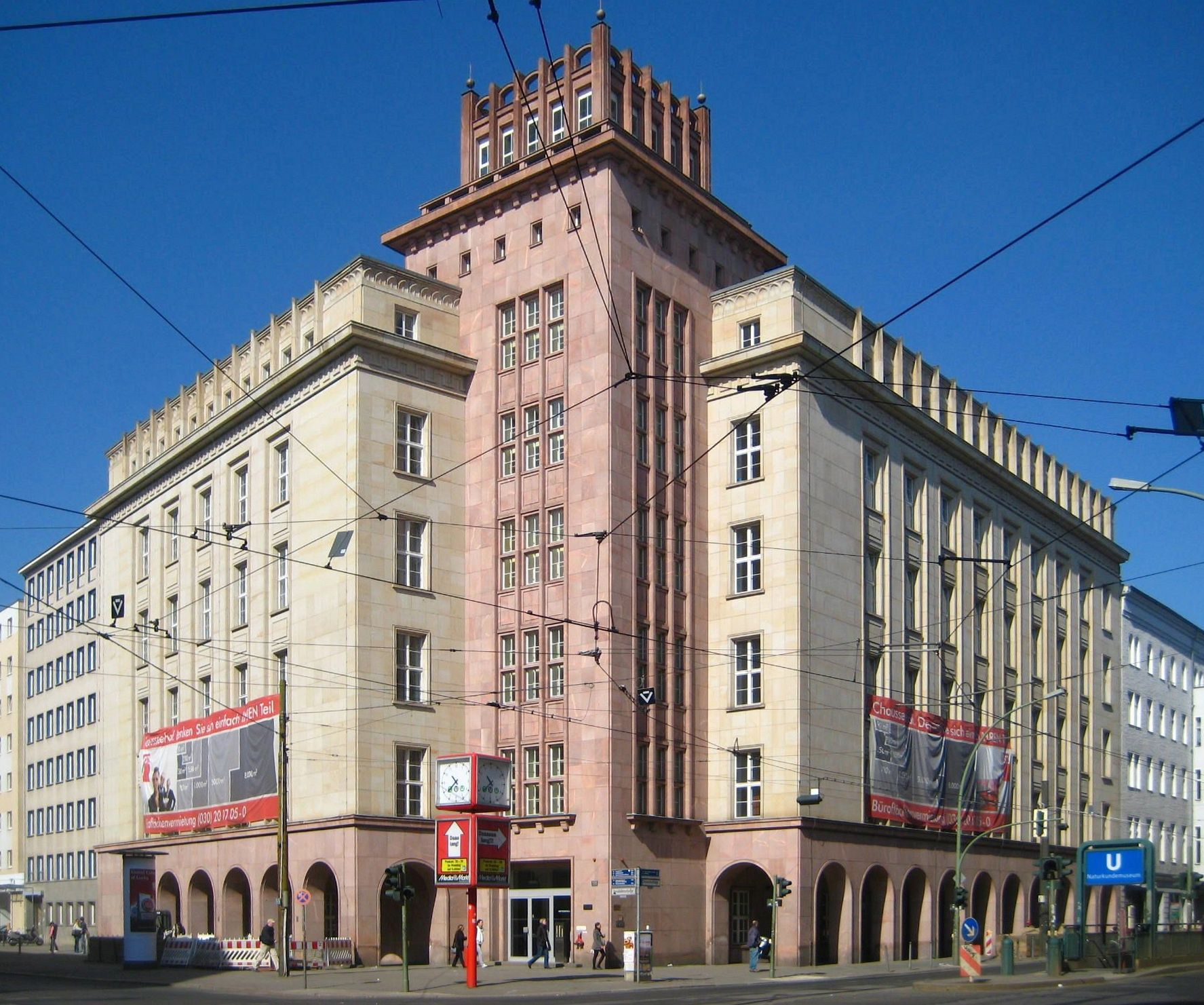 The former Chamber of Industry and Commerce of the GDR at Chausseestraße No. 111-113, corner of Invalidenstraße (left), in Berlin-Mitte. The building was constructed from 1954 to 1957 to a design by Johannes Pässler. It has been dedicated as a historic landmark.